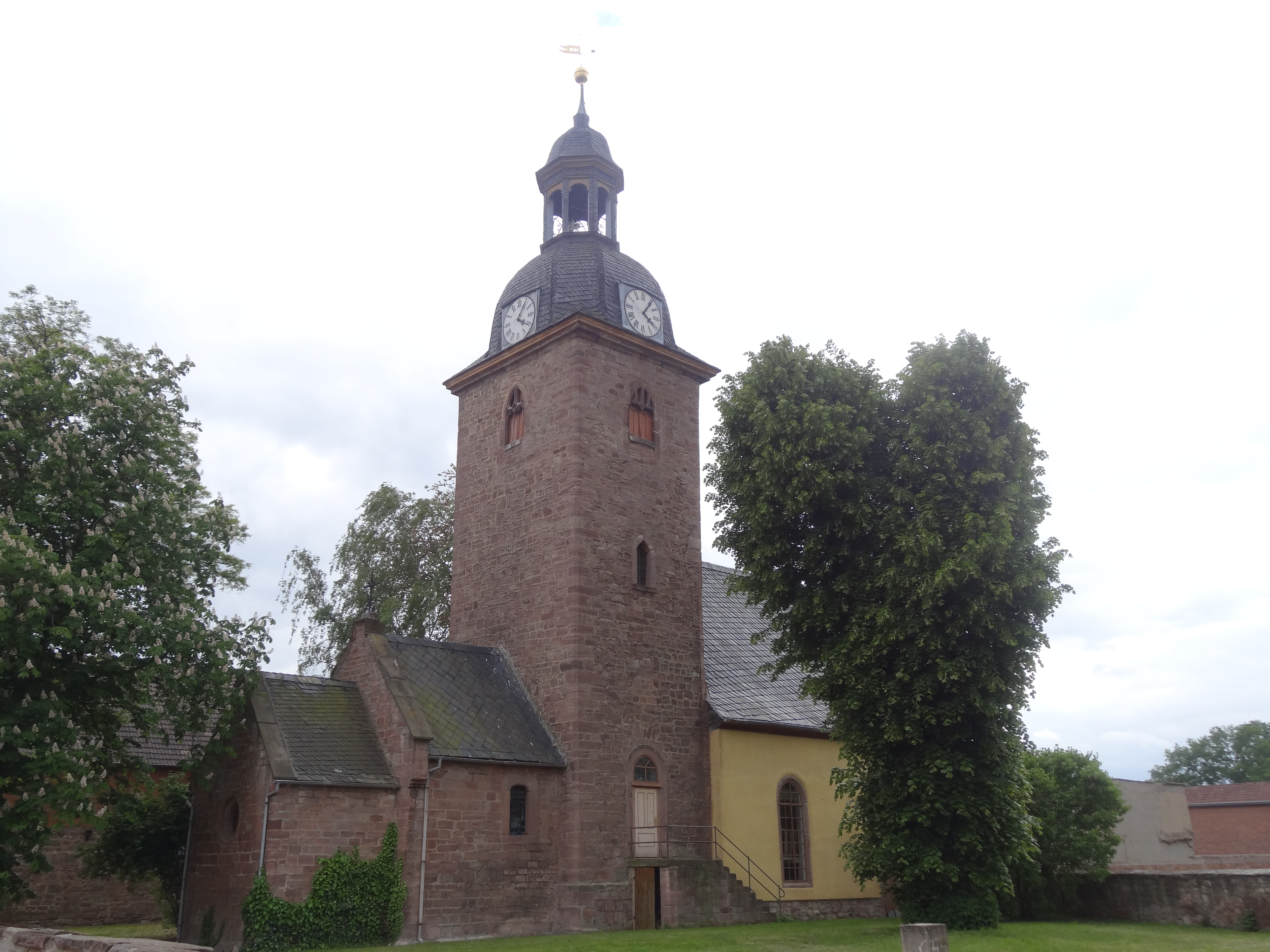 Church in Esperstedt, Bad Frankenhausen, Thuringia, Germany